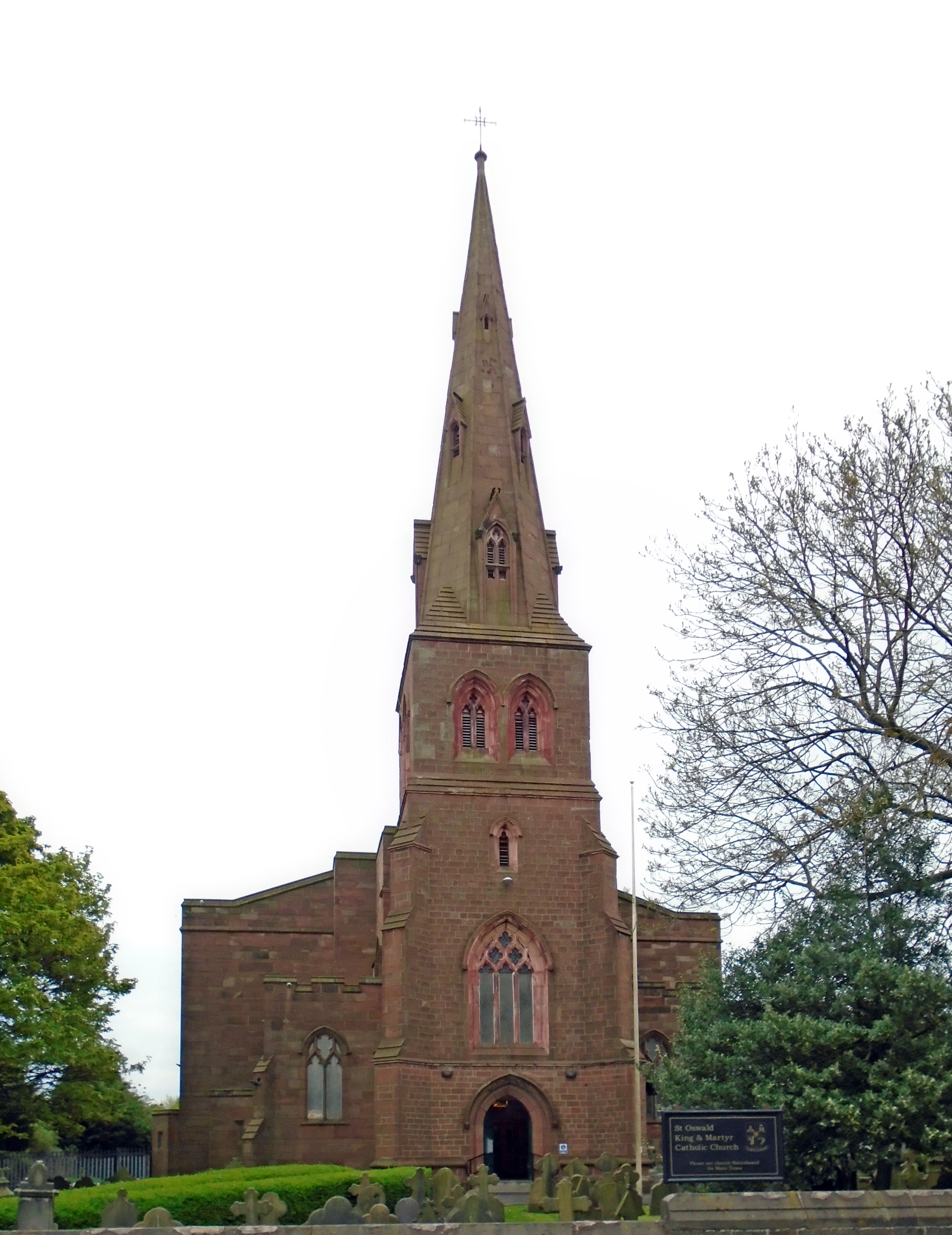 Front view from St Oswalds Street